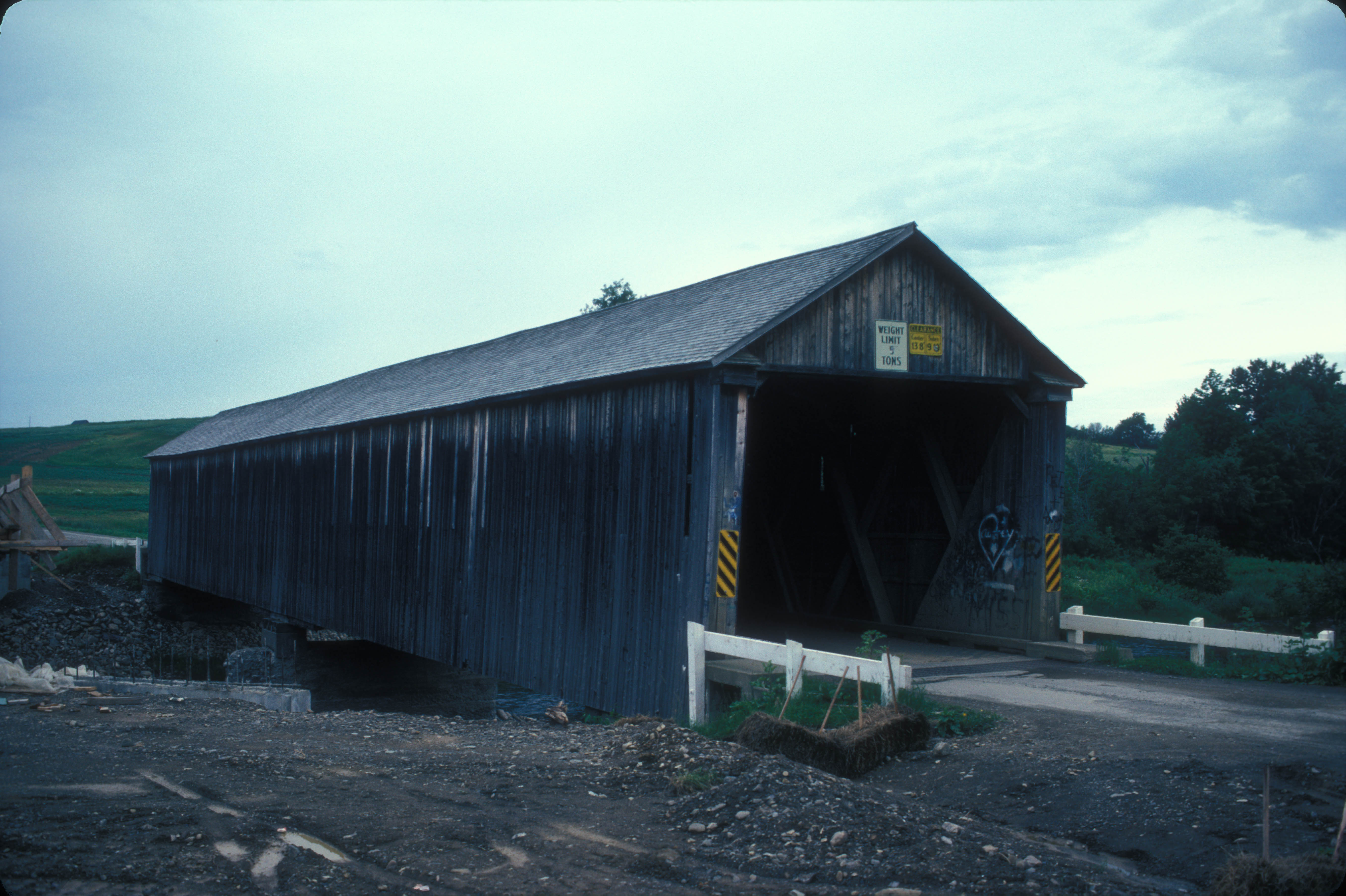 1903 HOWE OVER MEDUXNEKEAG RIVER